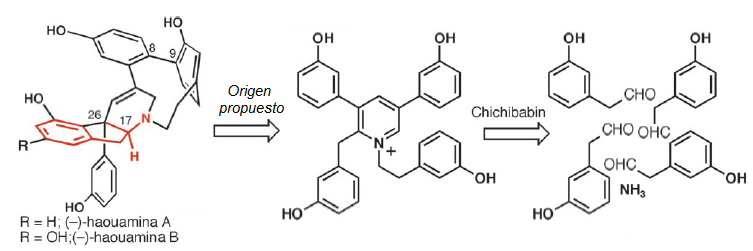 BIOSYNTHETIC HYPOTHESIS OF OF HAOUAMINES